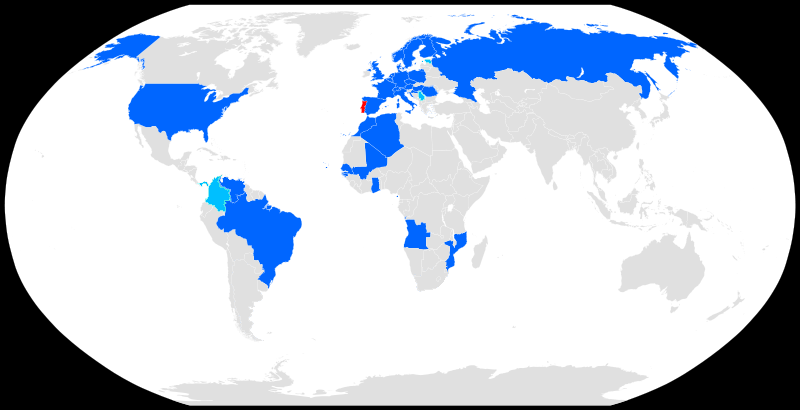 Map of the TAP Portugal destinations in January 2014 (apart from Athens, which is suspended) plus the new destinations announced for 2014